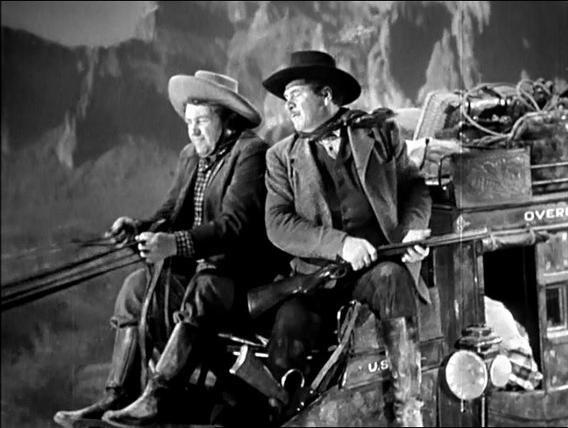 This image is a screenshot from a public domain trailer for the 1938 film, Stagecoach. Trailers for movies released before 1964 are in the Public Domain because they were never separately copyrighted.